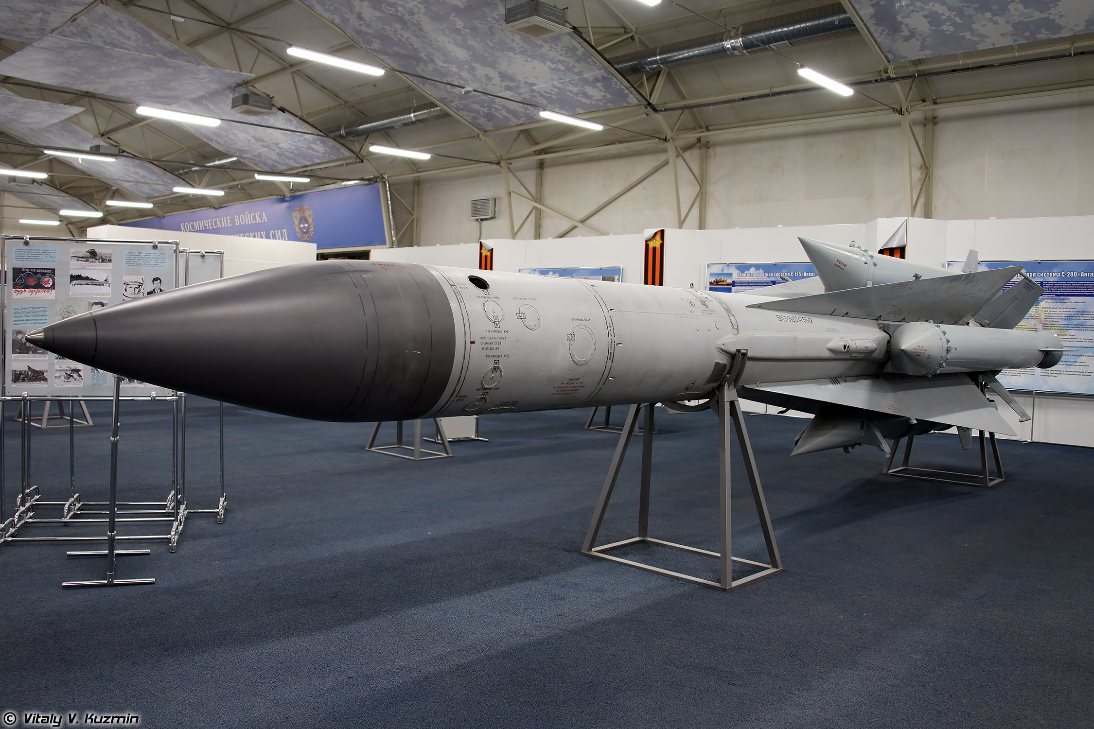 5V28 SAM S-200V system